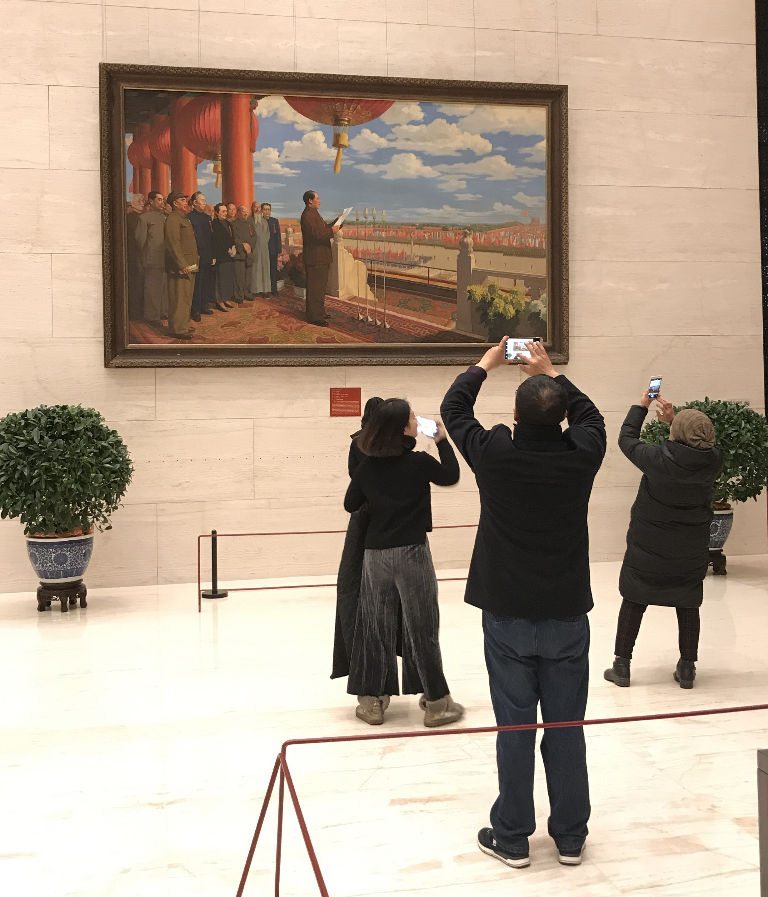 Tourists take photographs of Dong Xiwen's "The Founding Ceremony of the Nation". Believed to be the original version.